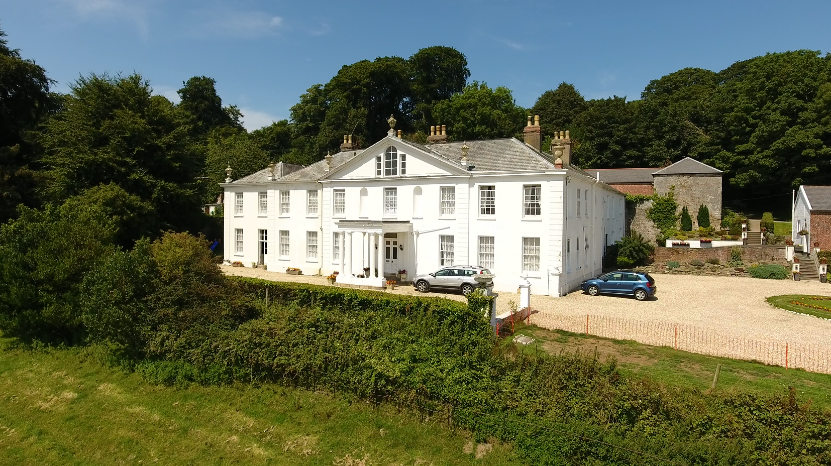 Upcott House in the parish of Pilton, Devon. South front. Mid 18th c. (rainwater head dated "1752") remodelled mid 19th c. See listed building text[1]. The Venetian window in the pediment is architecturally illiterate! Pevsner: "three-bay pediment rather awkwardly containing a Venetian window". (Pevsner, Nikolaus & Cherry, Bridget, The Buildings of England: Devon, London, 2004, p.630)